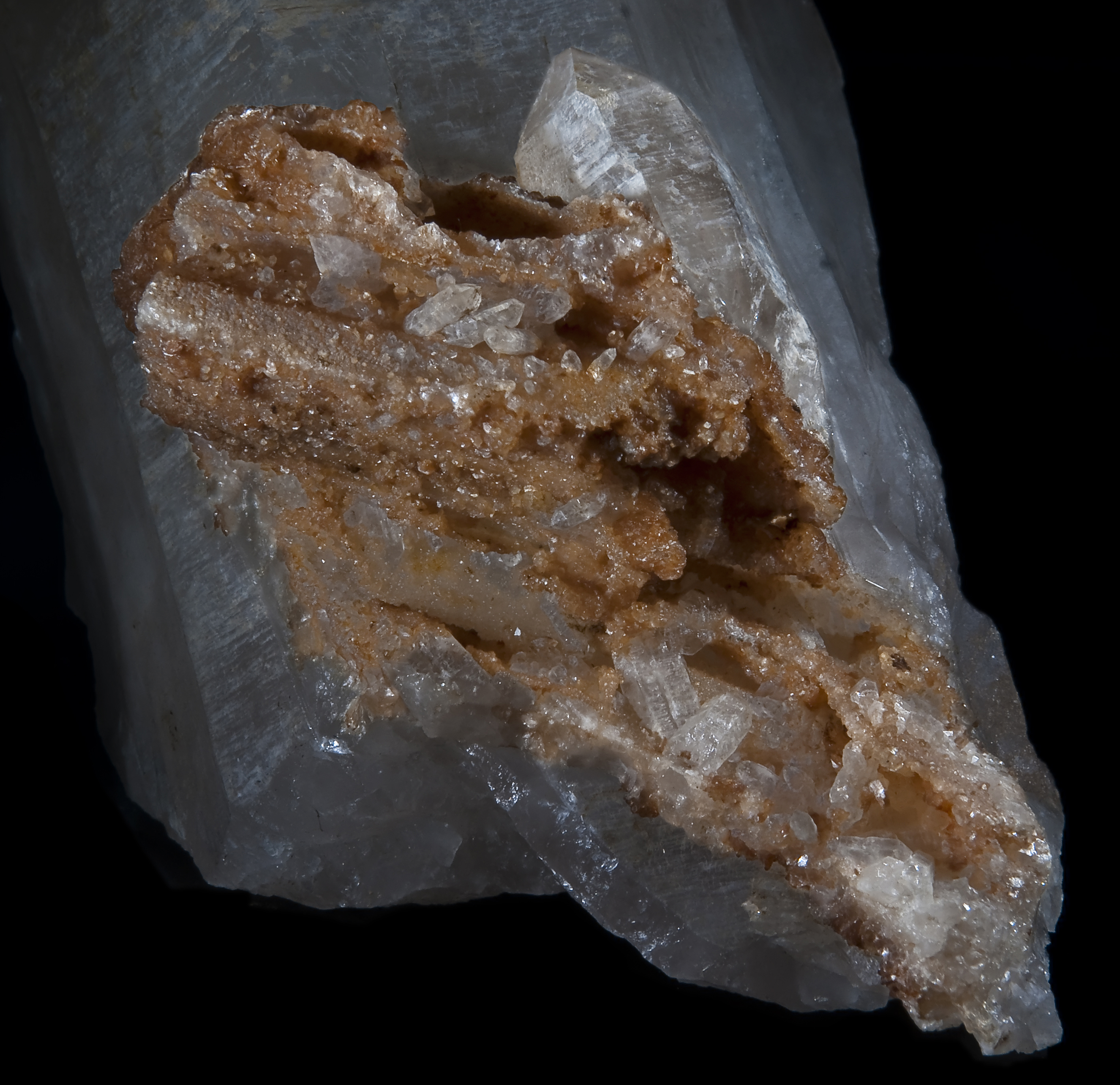 Cookeite on quartz Locality : Mt Mica Quarry, Paris, Oxford Co., Maine, USA - Deposite topotype - Coll. Emile Bertand (1844-1909) Size view 6cm